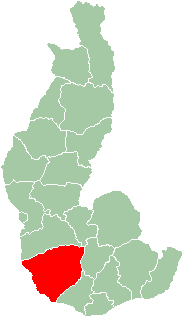 Location map of Ampanihy region in Toliara province.